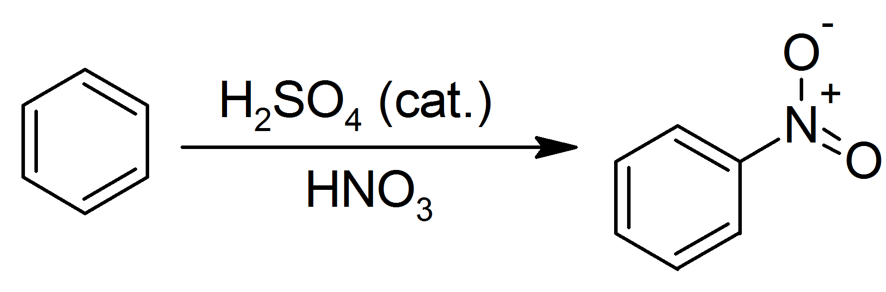 BenzeneNitration.